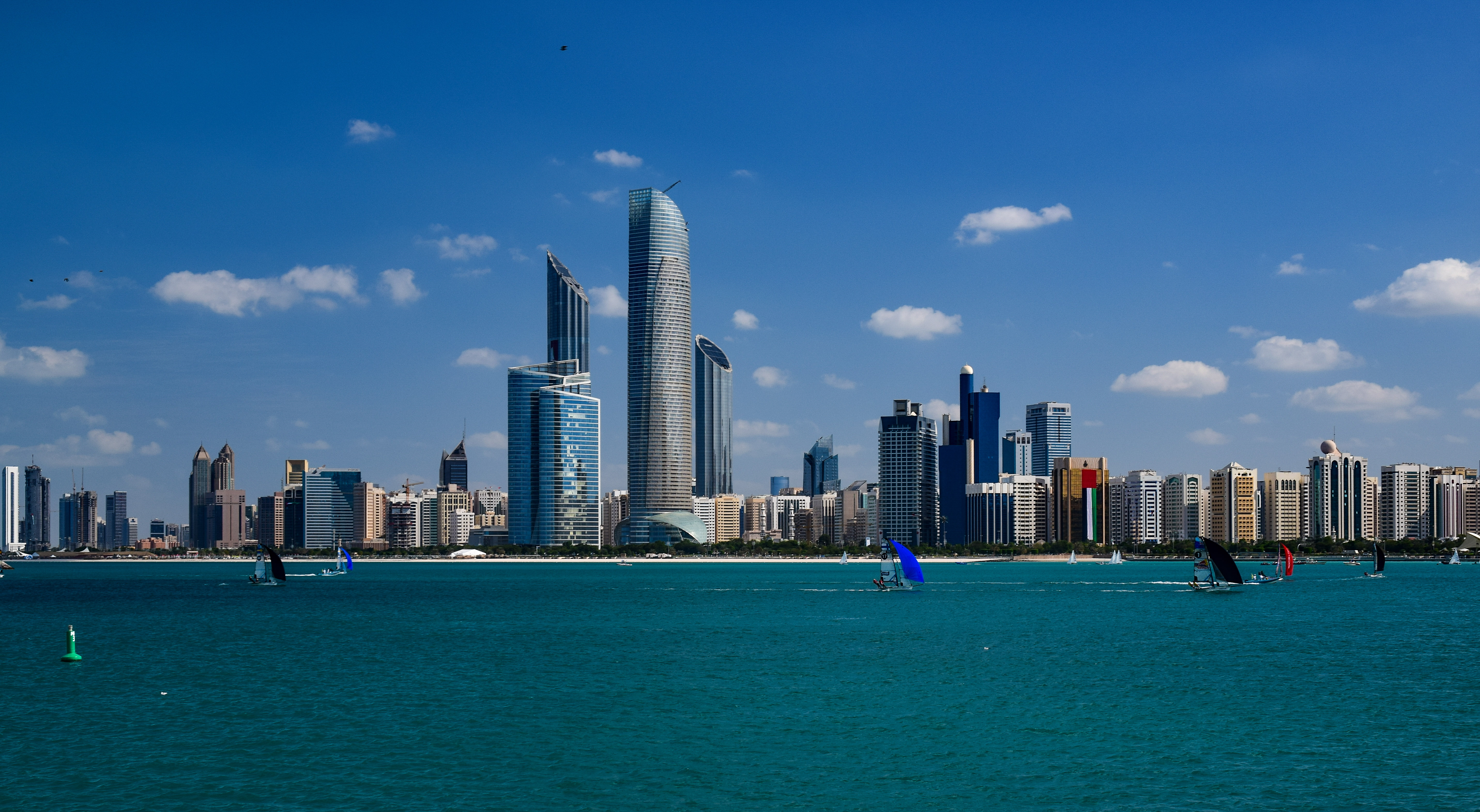 Abu dhabi decembre 2014